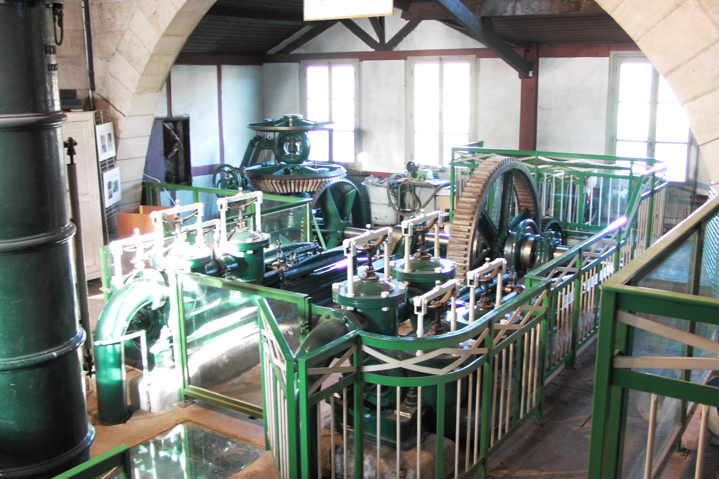 Pavillon de Manse in Chantilly. Pumps and machines room built for the Duc d'Aumale in the Pavillon. More information on